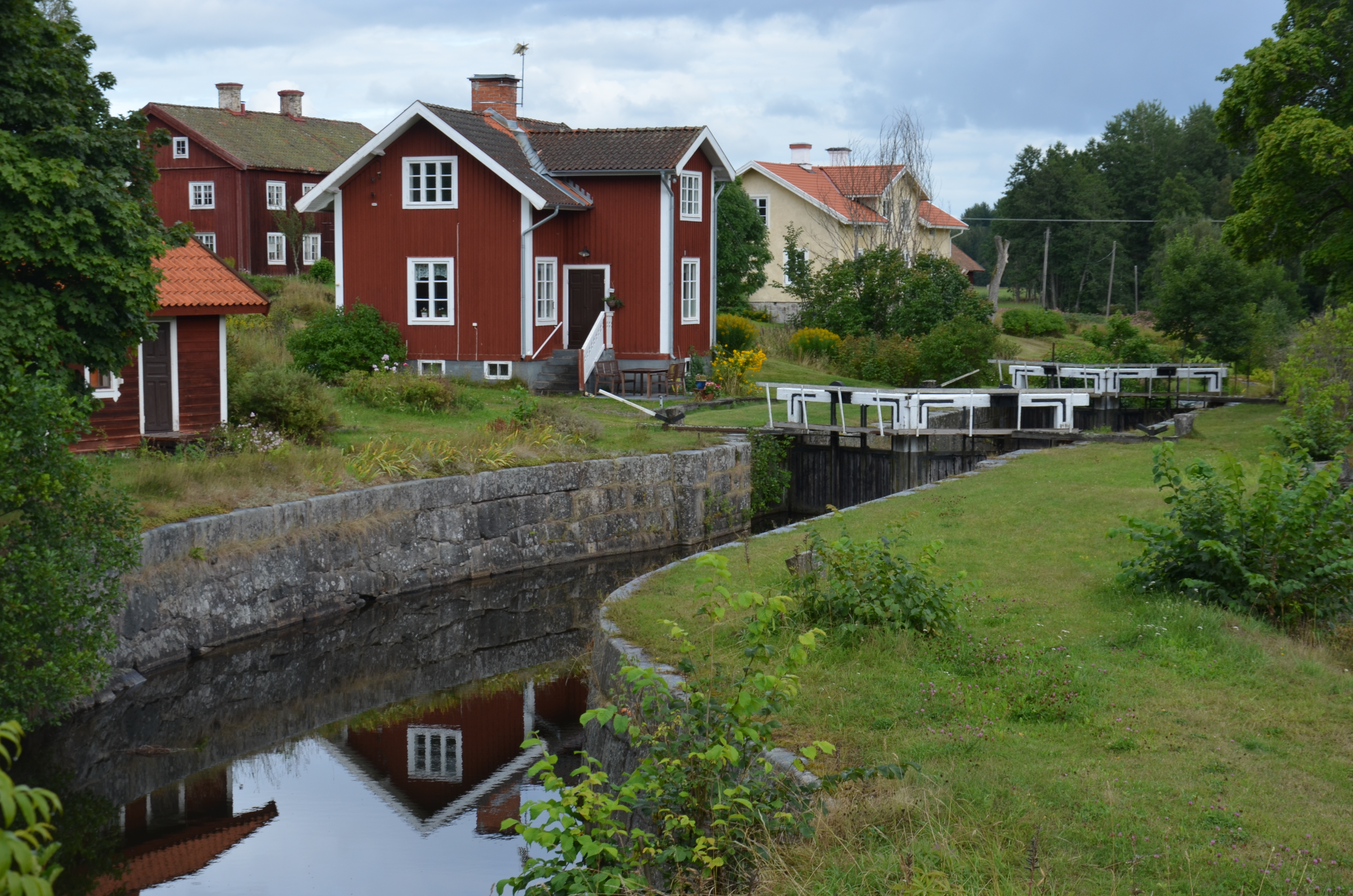 Slussen i Seglingsberg